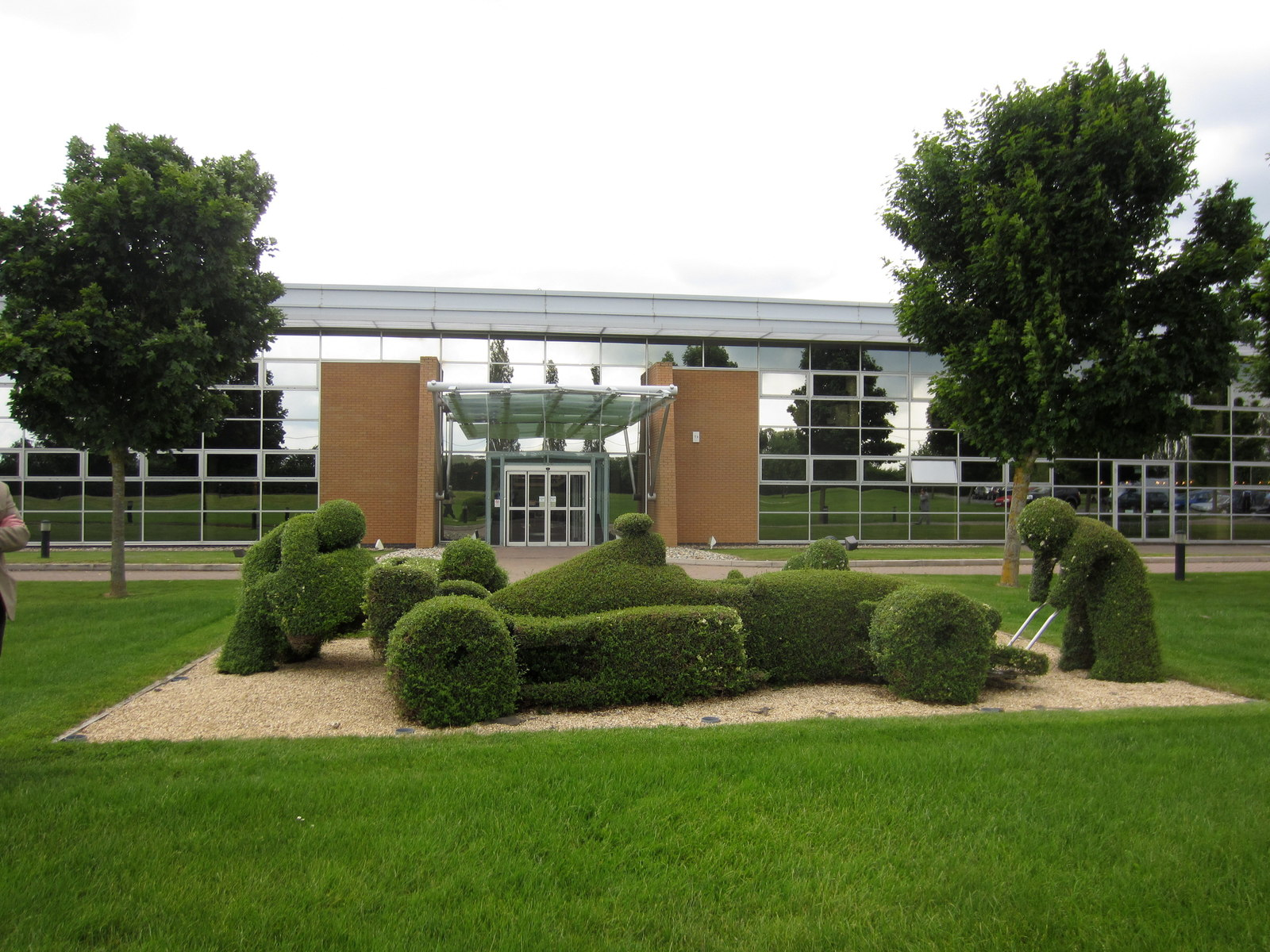 Williams Conference centre